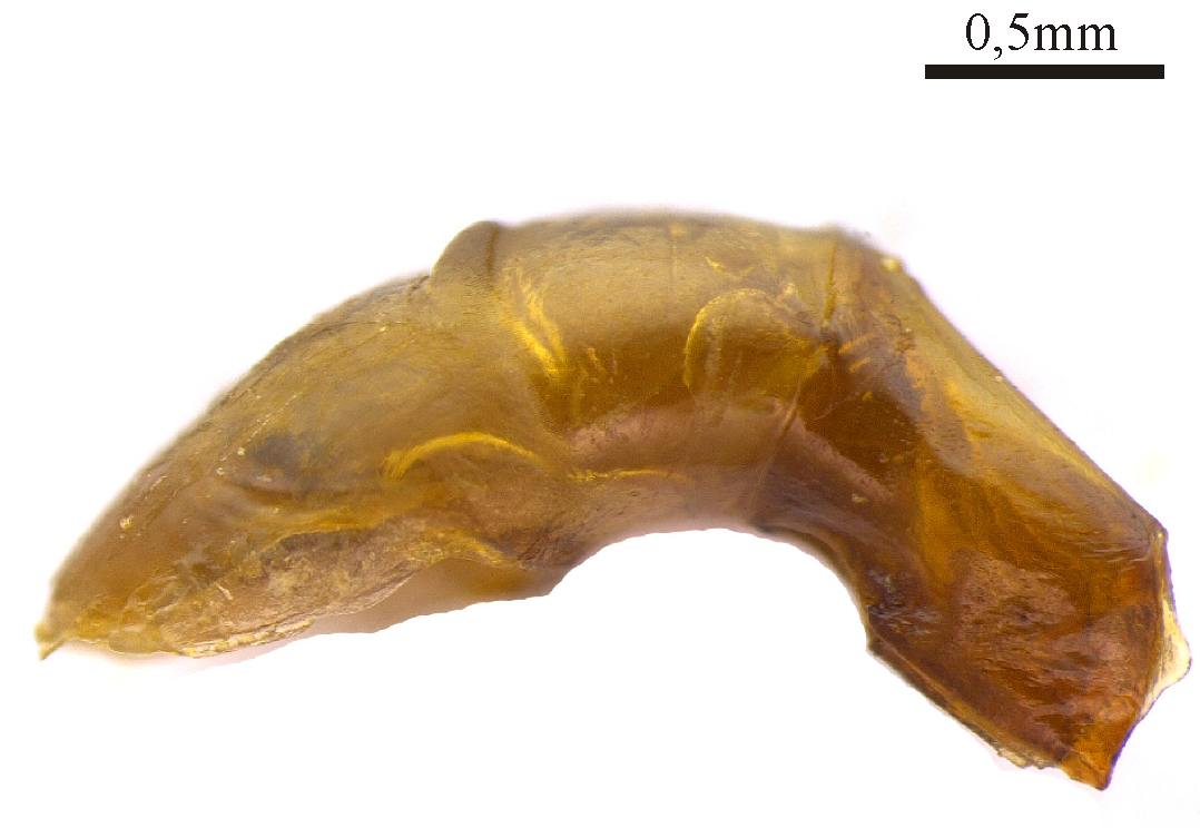 Scybalocanthon korasakiae: aedeagus right side.